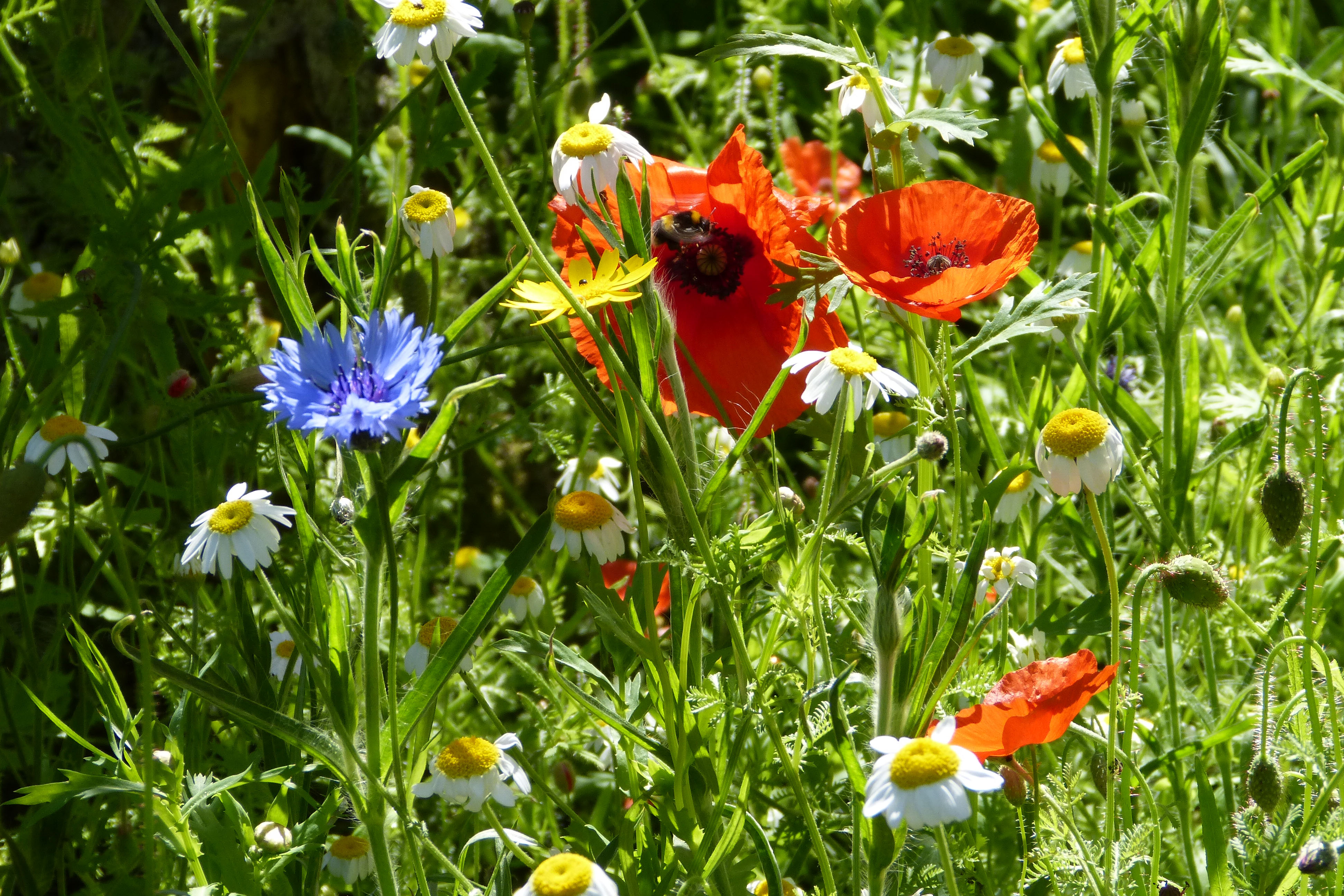 Cradley, Malvern, Worcs